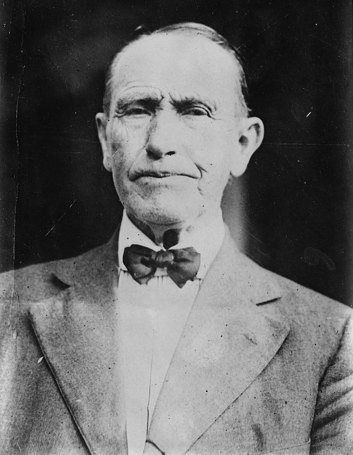 John Calvin Coolidge, Sr. - Father of US president Calvin Coolidge